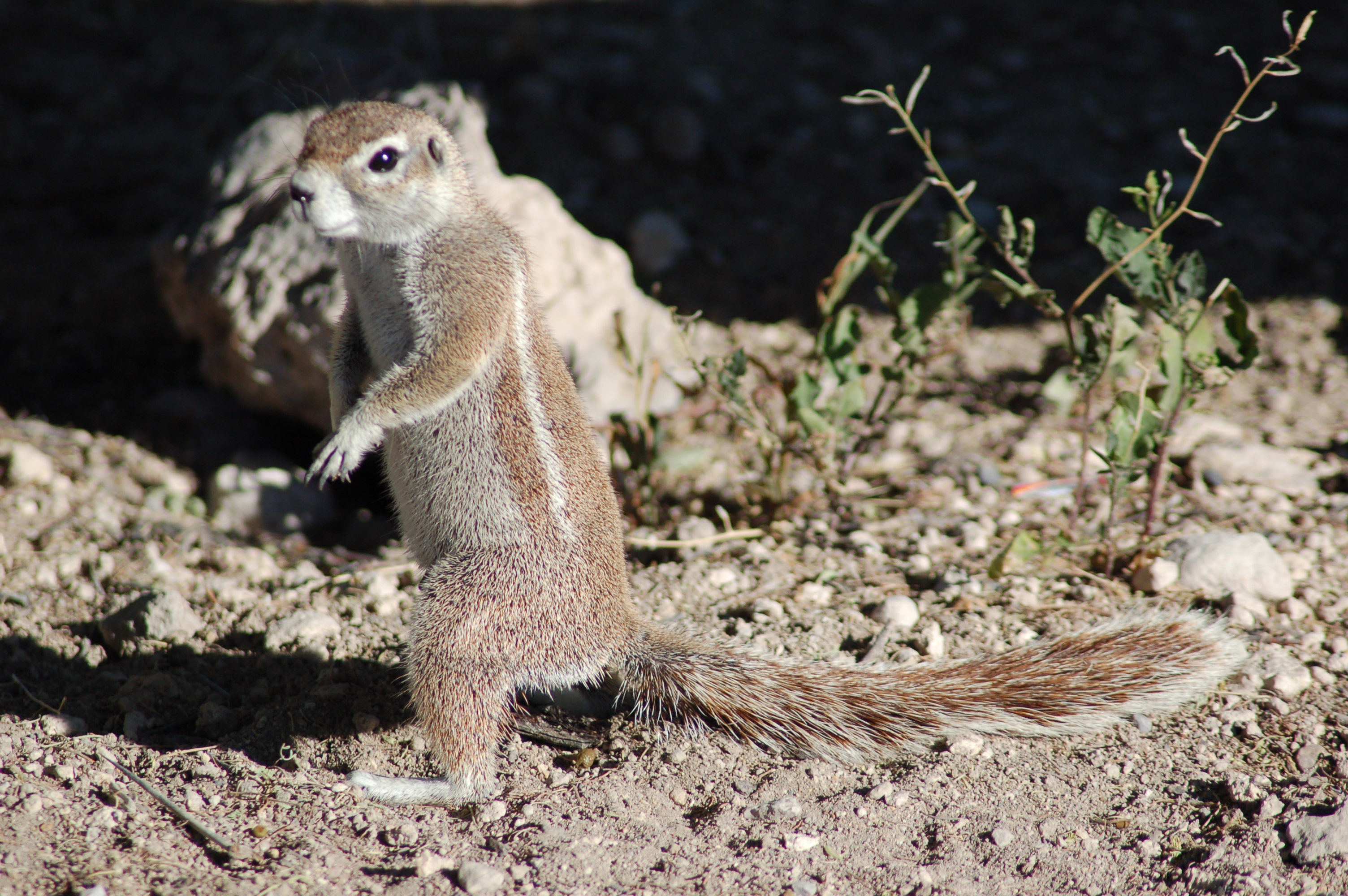 Cape Ground Squirrel (Xerus inauris), Etosha National Park